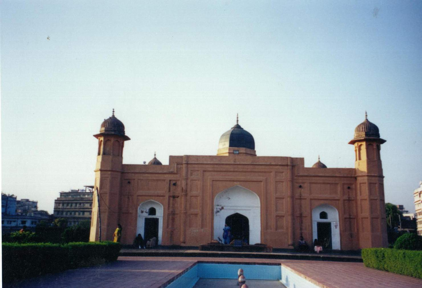 Lalbagh Fort (লালবাগ কেল্লা), Dhaka, Bangladesh. Photograph of the shrine of "Pari Bibi"(পরী বিবি) -- the daughter of Shayesta Khan, who passed away of a disease while the governor was still constructing the fort. It's not a Tajmahal, yet bears every mark of love of a father for his daughter.